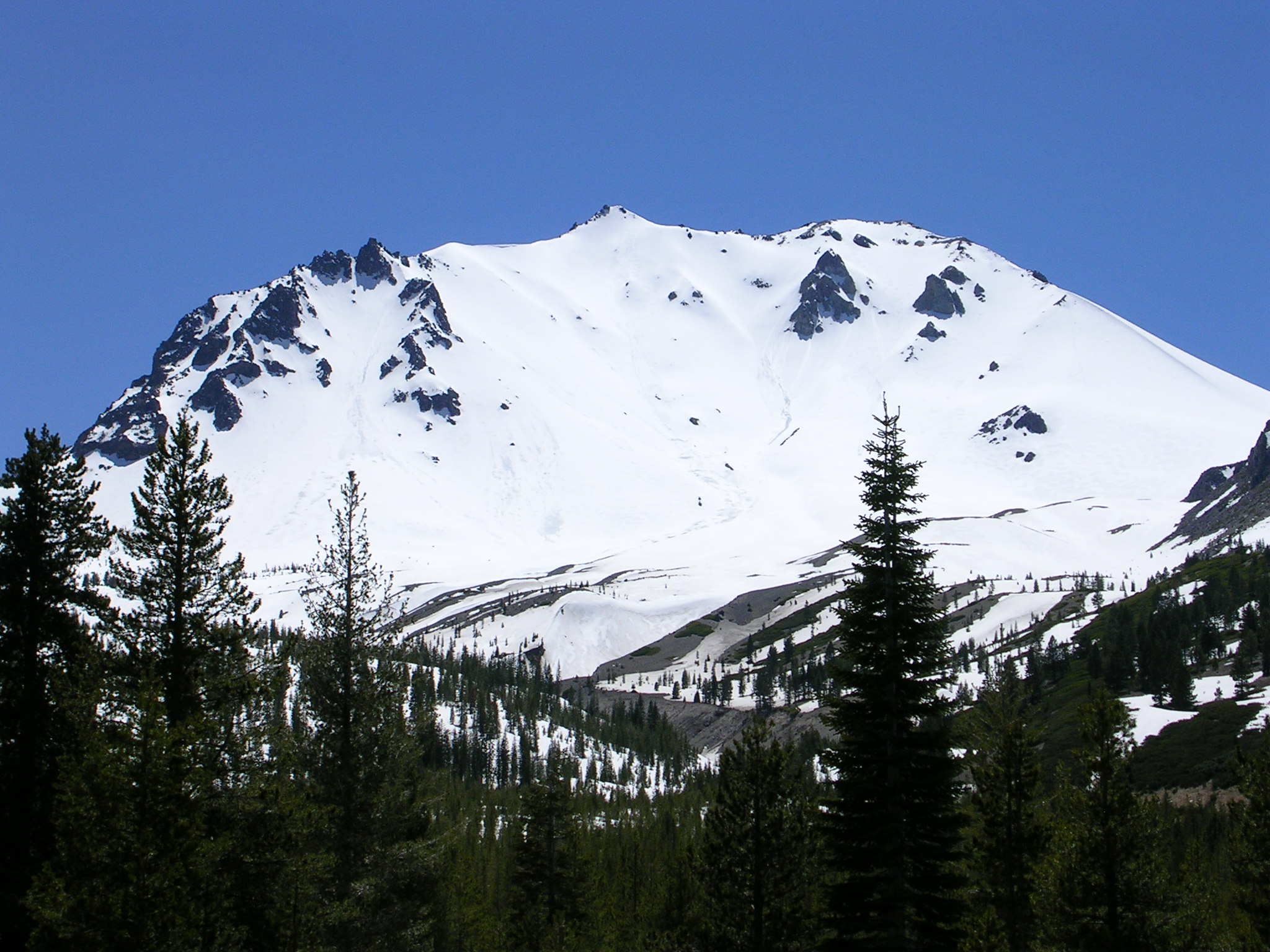 Lassen National Park. Lassen Peak as seen from the Devastated Area parking lot. The shoulder of Crescent Crater is visible at far left.